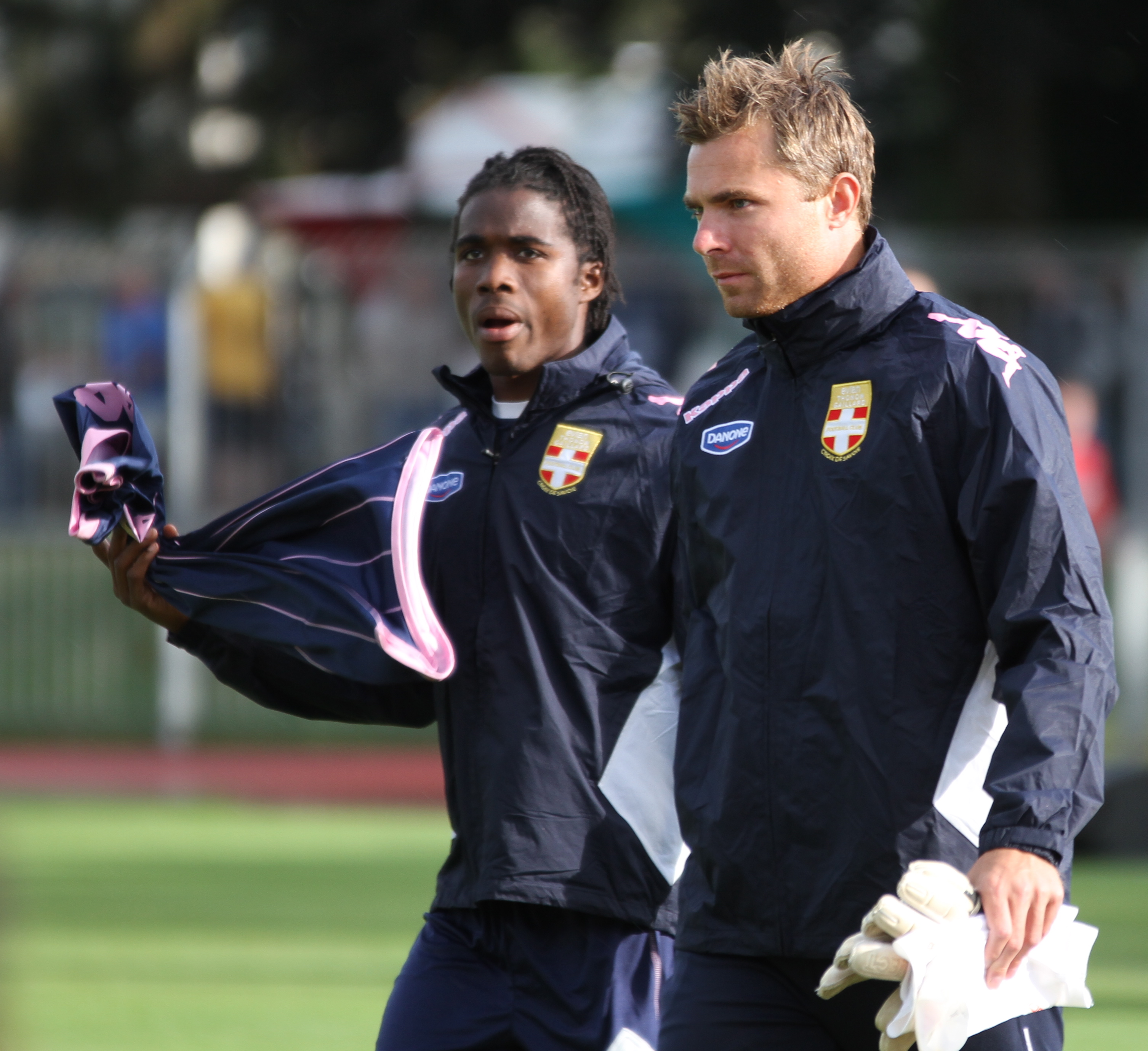 Stephan Andersen, au premier plan